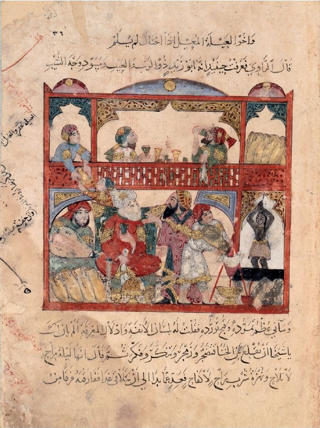 12th maqama. The image comes from an illuminated manuscript of the Maqamat by Al-Hariri (1054-1122), painted in Iraq in the style of the Baghdad School by Yahya ibn Mahmud al-Wasiti. The manuscript was completed in 1237. 37 x 28 cm